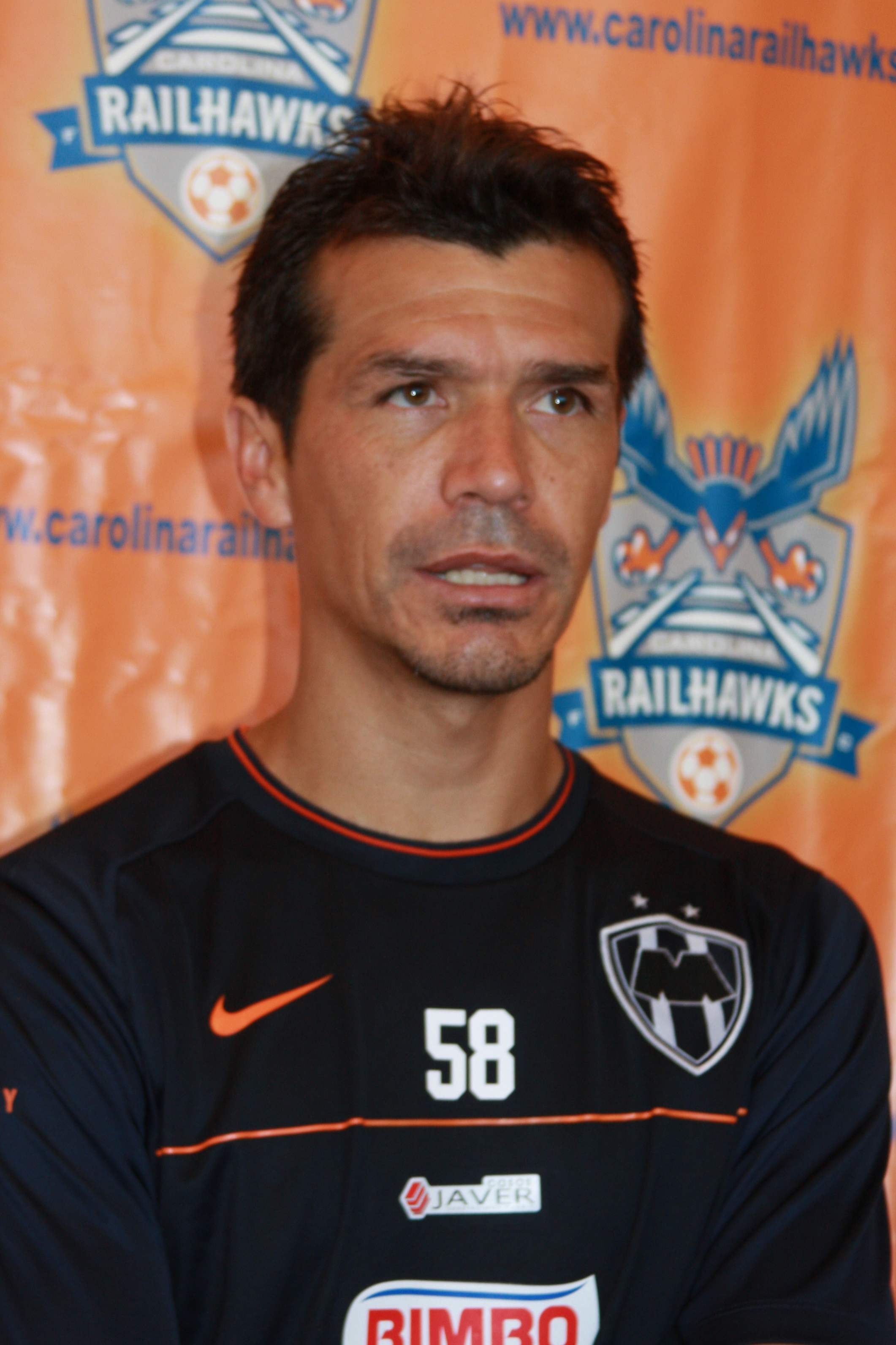 Jared Borgetti at a press conference in North Carolina